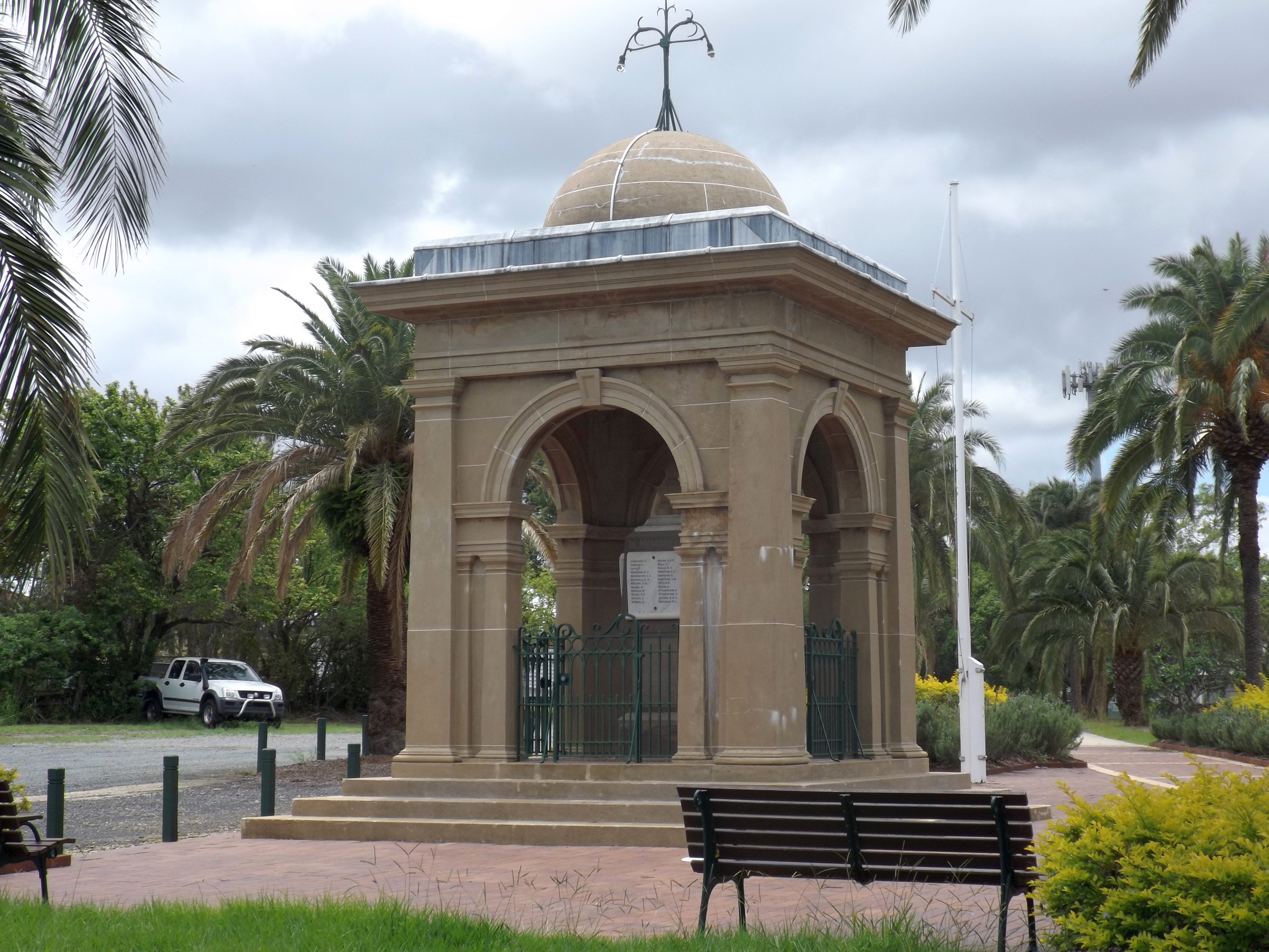 Photo of cenotaph at Yeronga Memorial Park, Yeronga, Brisbane, Queensland, Australia.